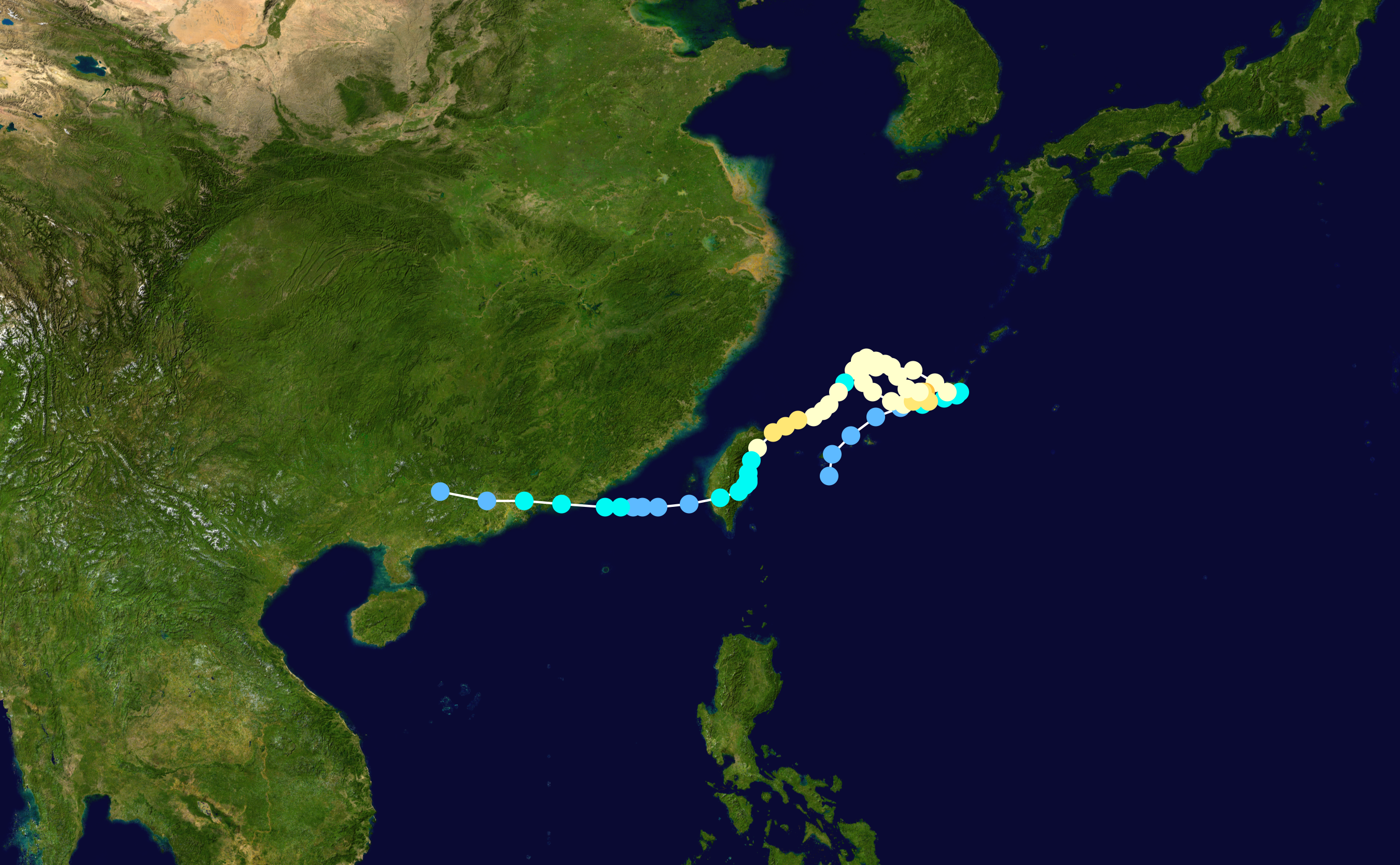 Track map of Typhoon Nari of the 2001 Pacific typhoon season. The points show the location of the storm at 6-hour intervals. The colour represents the storm's maximum sustained wind speeds as classified in the Saffir–Simpson scale (see below), and the shape of the data points represent the nature of the storm, according to the legend below. Saffir–Simpson scale Tropical depression≤38 mph≤62 km/h Category 3111–129 mph178–208 km/h Tropical storm39–73 mph63–118 km/h Category 4130–156 mph209–251 km/h Category 174–95 mph119–153 km/h Category 5≥157 mph≥252 km/h Category 296–110 mph154–177 km/h Unknown Storm type Tropical cyclone Subtropical cyclone Extratropical cyclone / Remnant low / Tropical disturbance / Monsoon depression